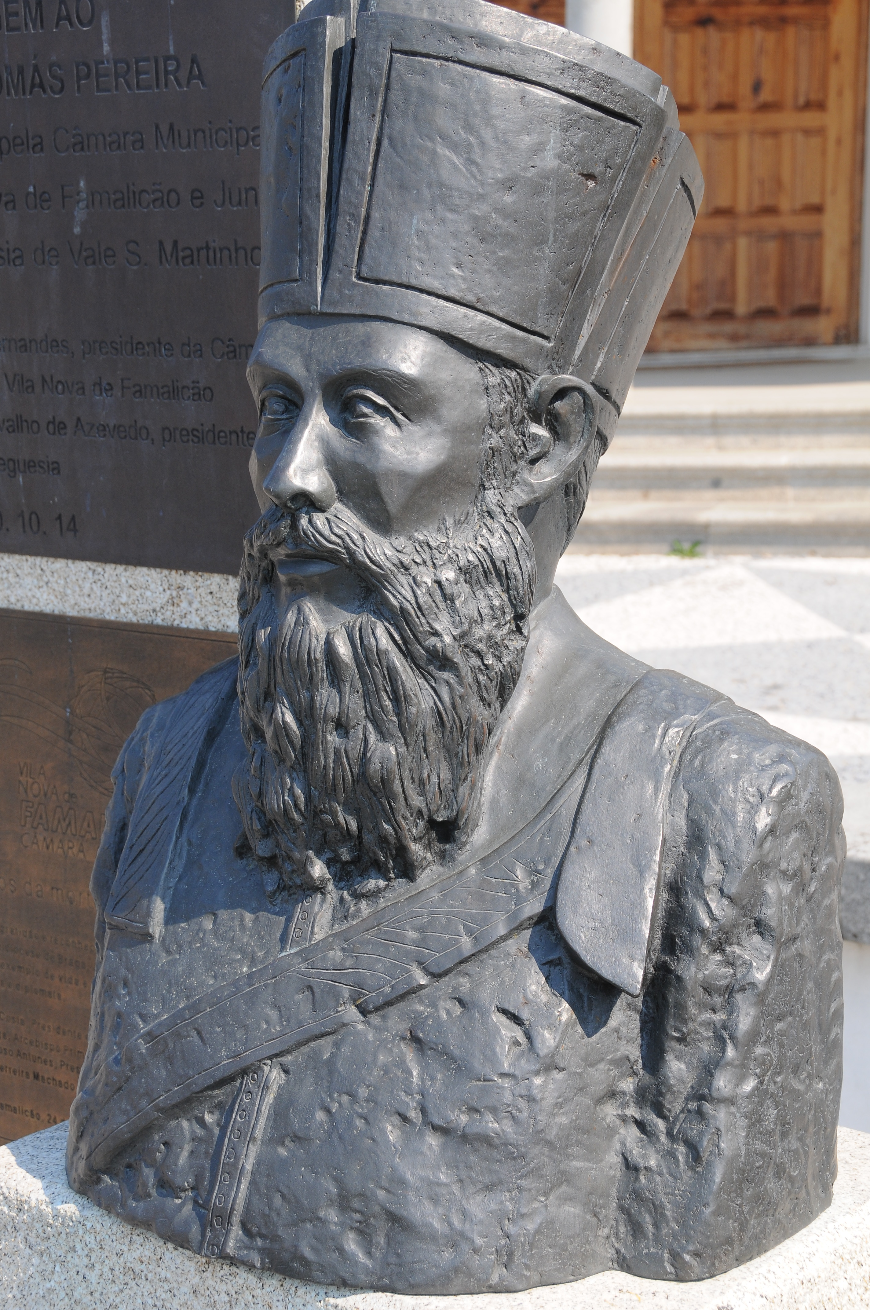 Thomas Pereira bust, in São Martinho do Vale, Vila Nova de Famalicao, Portugal.